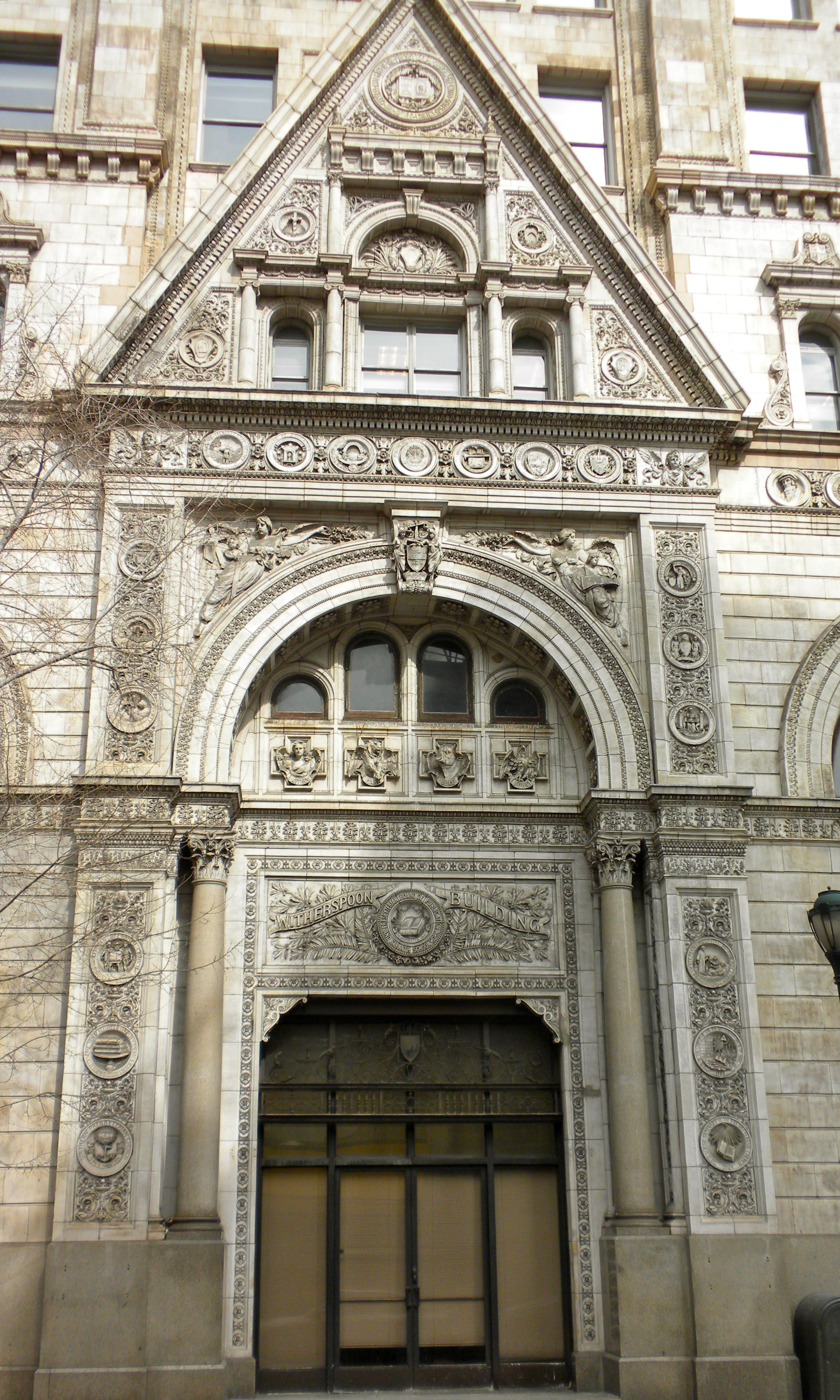 Witherspoon Building in Philadelphia. On NRHP since September 18, 1978. At 1319–1323 Walnut Street in the Market East neighborhood of Center City. Was used as a religious publishing house, but is now used as a bank